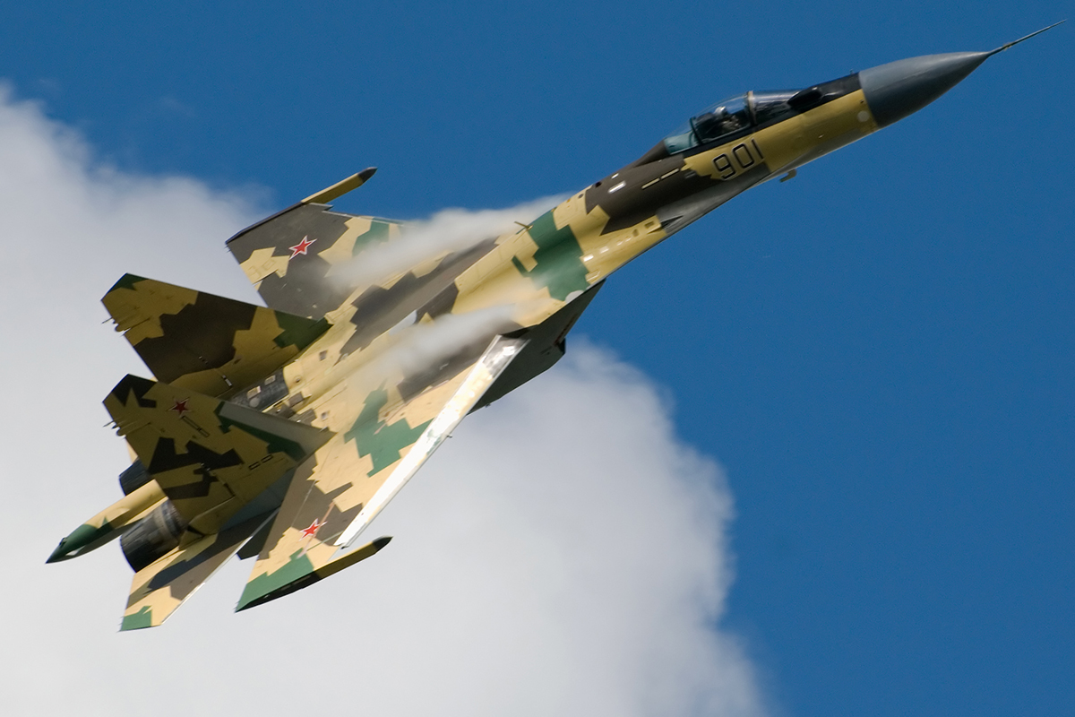 Su-35 in flight.